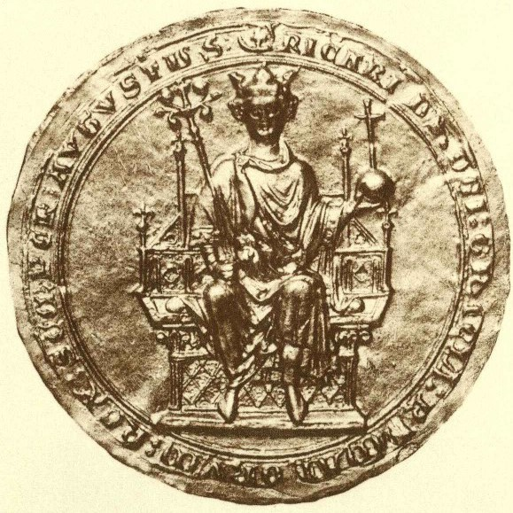 Seal of Richard, Earl of Cornwall, King of the Romans (1209-1272). Seal inscribed: RICARDUS DEI GRATIA ROMANORUM REX SEMPER AUGUSTUS. ("Richard by the grace of God King of the Romans ever august") (see reconstructive drawing File:Richard Cornwall.jpg) This is a scan of the historical document